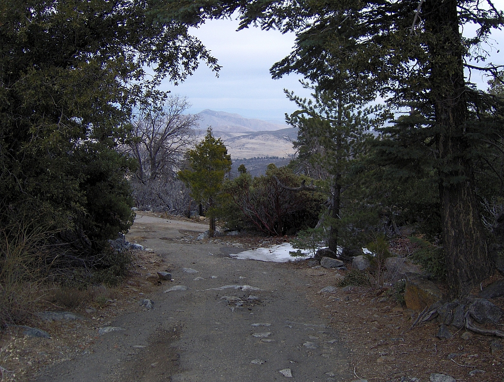 On the summit of Cuyamaca Peak, looking eastward — in the Cuyamaca Mountains, San Diego County, California. Taken on January 28th, 2007. Photo credit Tyler Finvold.